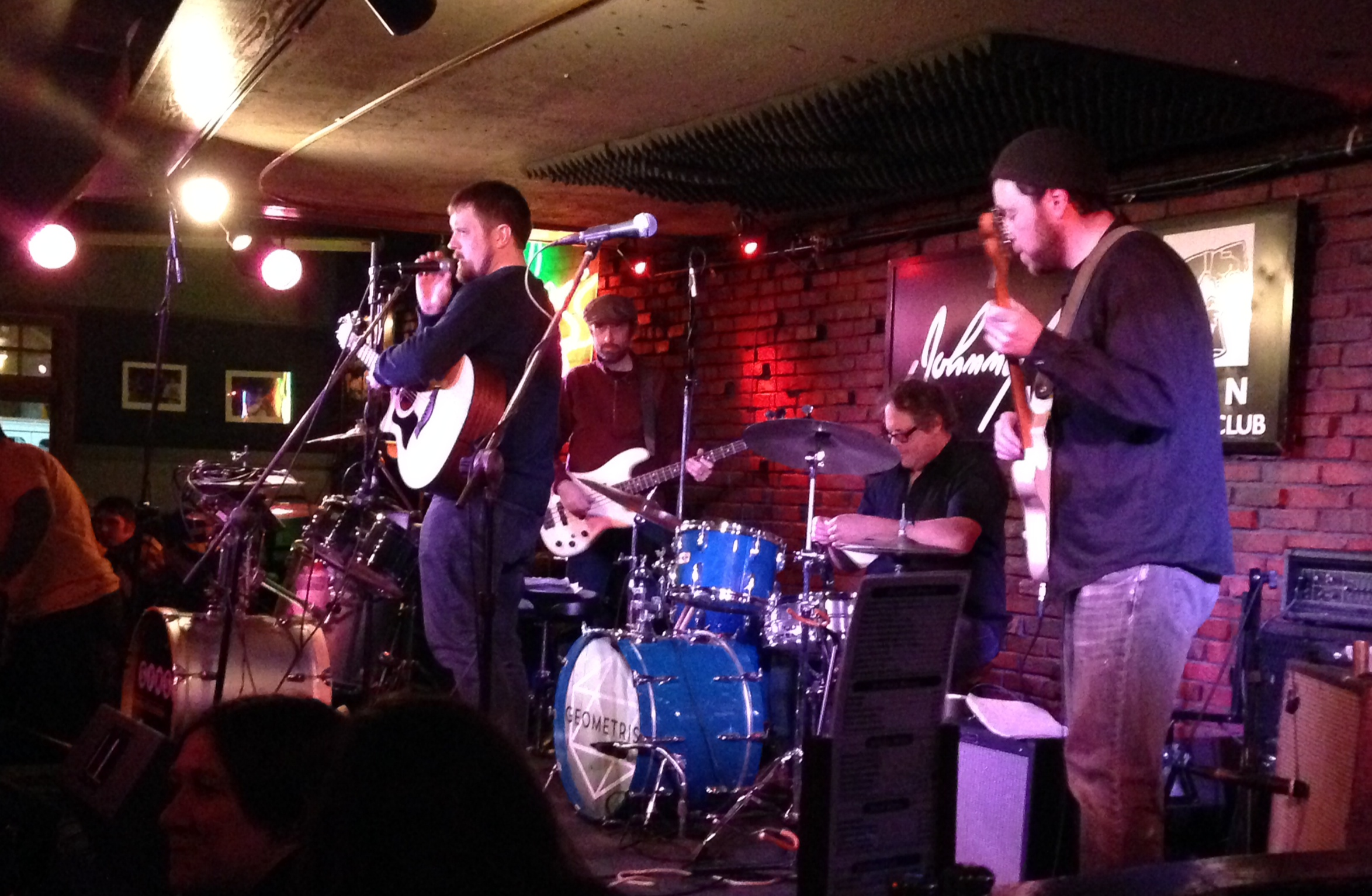 Brother & Co. performing at Johnny D's in Somerville, MA in January 2014.